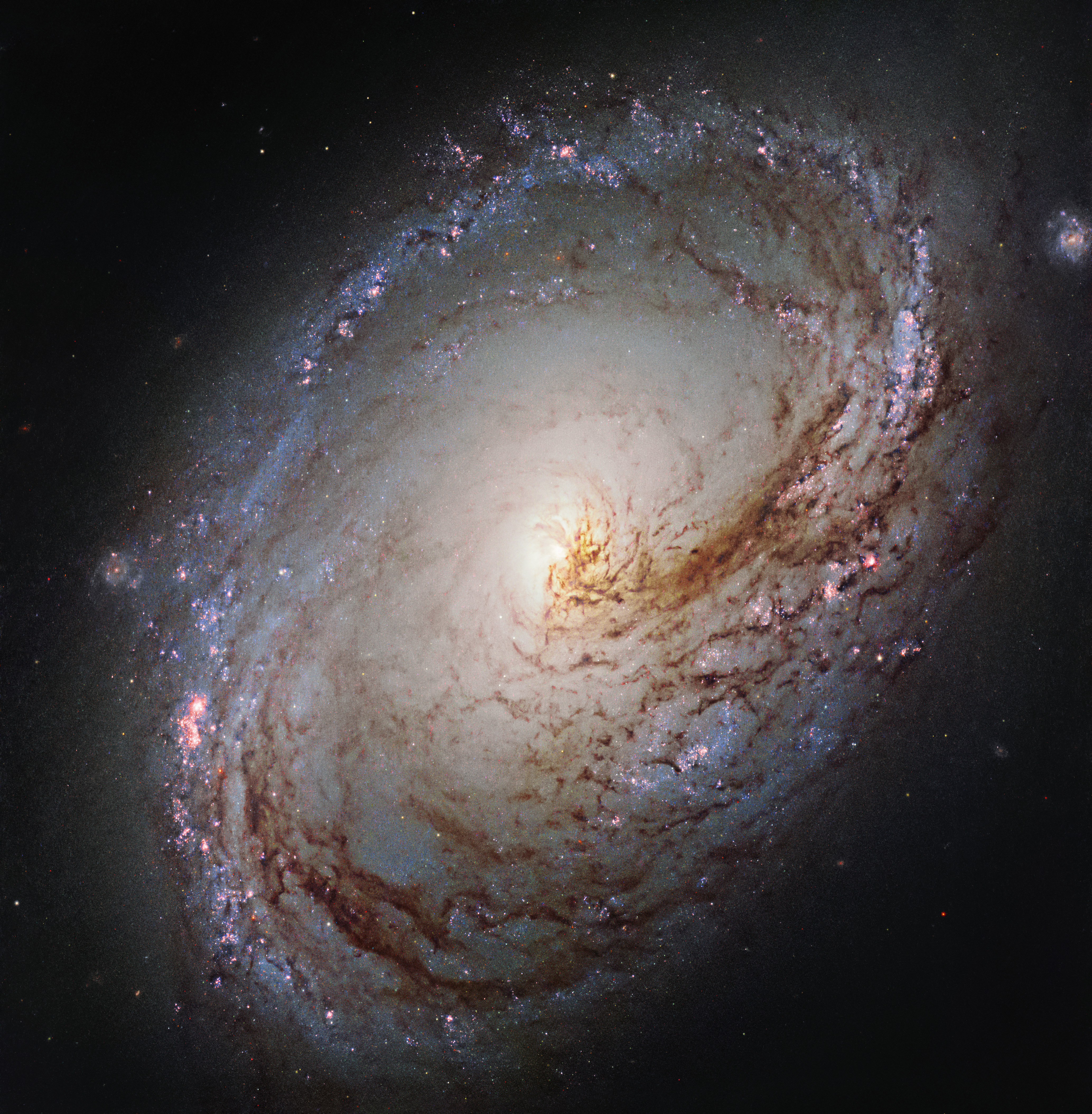 This new NASA/ESA Hubble Space Telescope shows Messier 96, a spiral galaxy just over 35 million light-years away in the constellation of Leo (The Lion). It is of about the same mass and size as the Milky Way. It was first discovered by astronomer Pierre Méchain in 1781, and added to Charles Messier’s famous catalogue of astronomical objects just four days later. The galaxy resembles a giant maelstrom of glowing gas, rippled with dark dust that swirls inwards towards the nucleus. Messier 96 is a very asymmetric galaxy; its dust and gas is unevenly spread throughout its weak spiral arms, and its core is not exactly at the galactic centre. Its arms are also asymmetrical, thought to have been influenced by the gravitational pull of other galaxies within the same group as Messier 96. This group, named the M96 Group, also includes the bright galaxies Messier 105 and Messier 95, as well as a number of smaller and fainter galaxies. It is the nearest group containing both bright spirals and a bright elliptical galaxy (Messier 105).